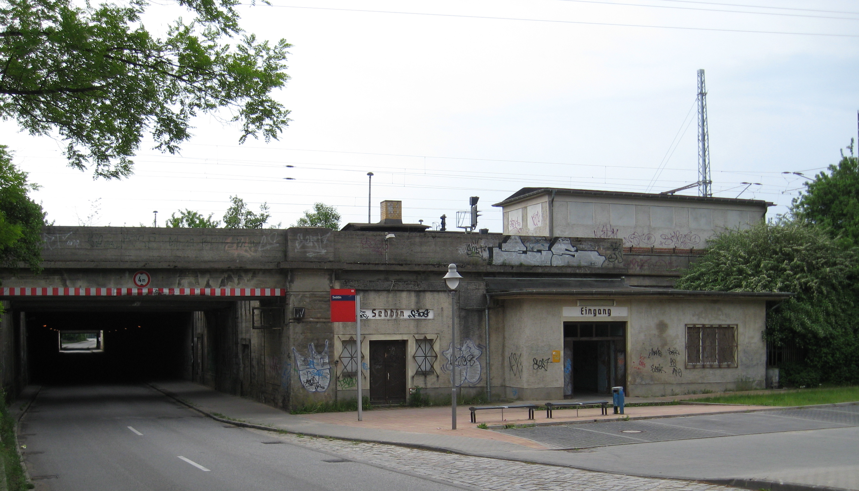 Seddin Trainstation in Neuseddin.